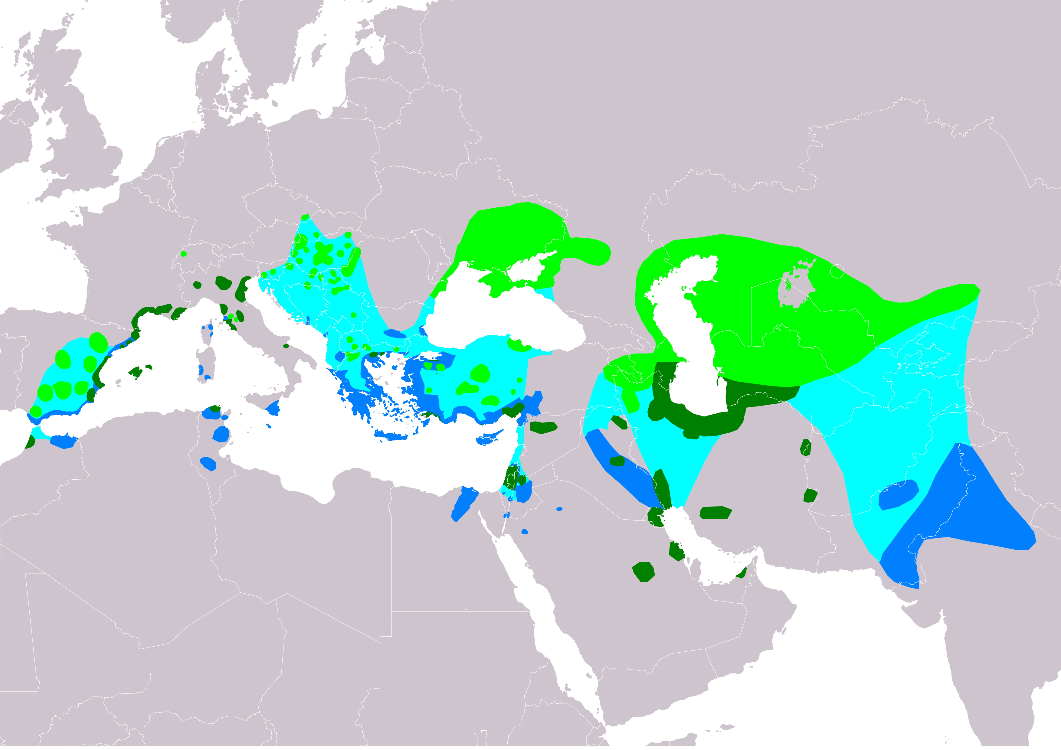 The distribution map of moustached warbler (Acrocephalus melanopogon) according to IUCN version 2019.1 , Legend: Extant, breeding (#00FF00), Extant, resident (#008000), Extant, passage (#00FFFF), Extant, non-breeding (#007FFF)